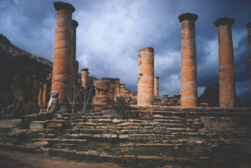 Ruins of Cyrene, Libya